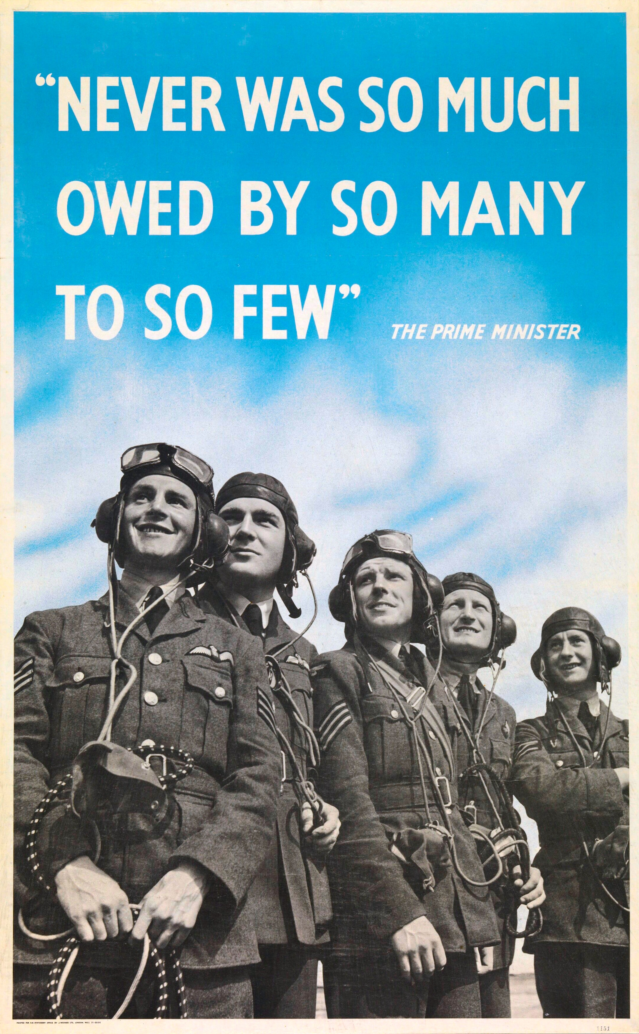 A poster quoting Churchill's words on the pilots of the Battle of Britain